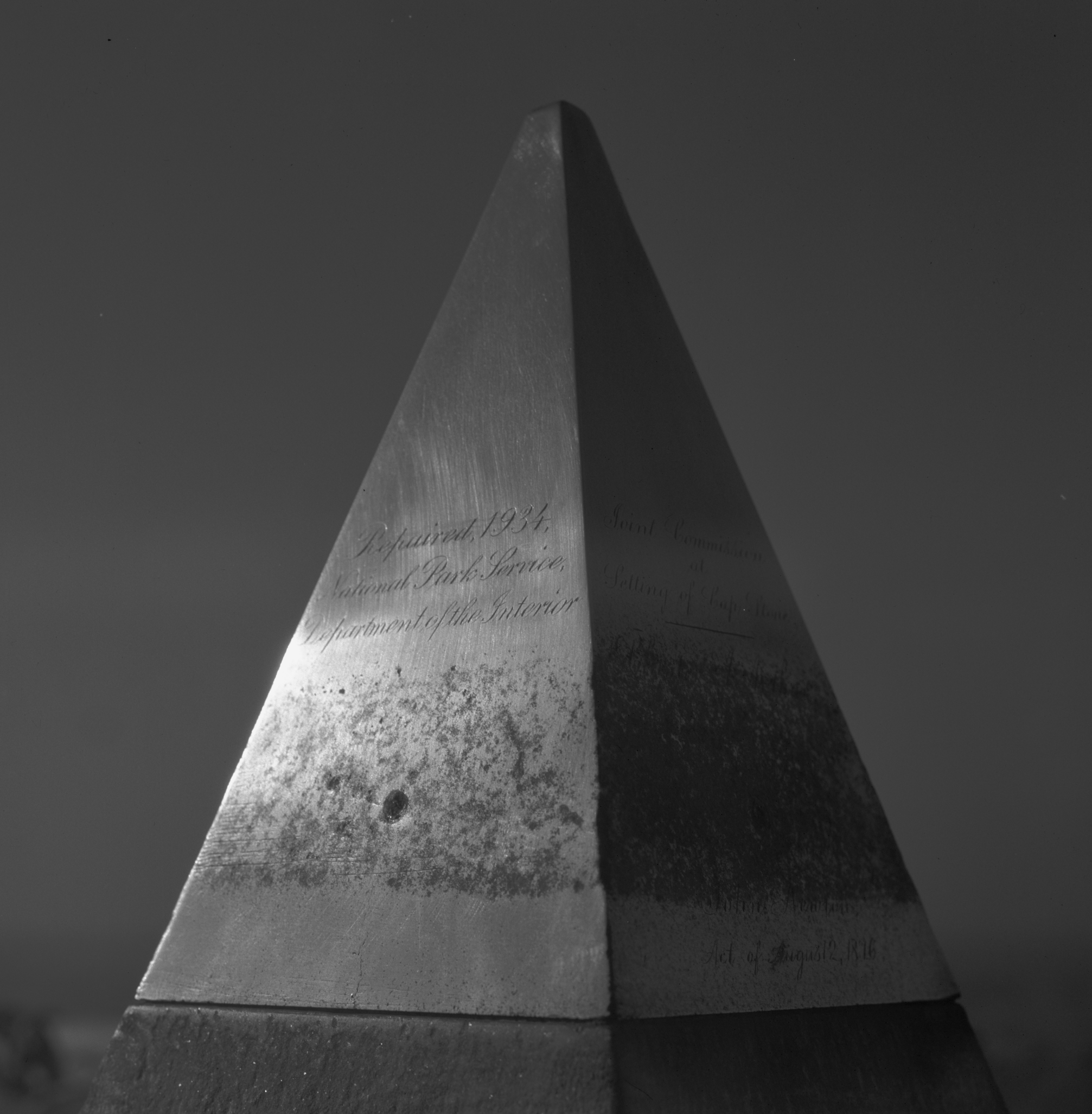 Aluminum apex showing inscriptions on east and north faces. Large dark spot in the center of the mottled area on the east (left) face is a dimple left by one of four set screws that used to hold the copper band to the apex.